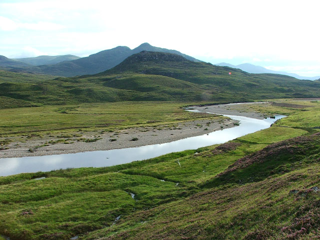 River Orrin. The River Orrin before it reaches the Orrin Reservoir. Carn a Bhainne is the small hill in the background.